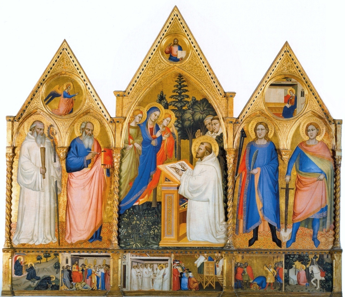 Matteo di Pacino, Madonna appare a San Bernardo, santi. ca. 1365, Galleria dell'Accademia, Firenze